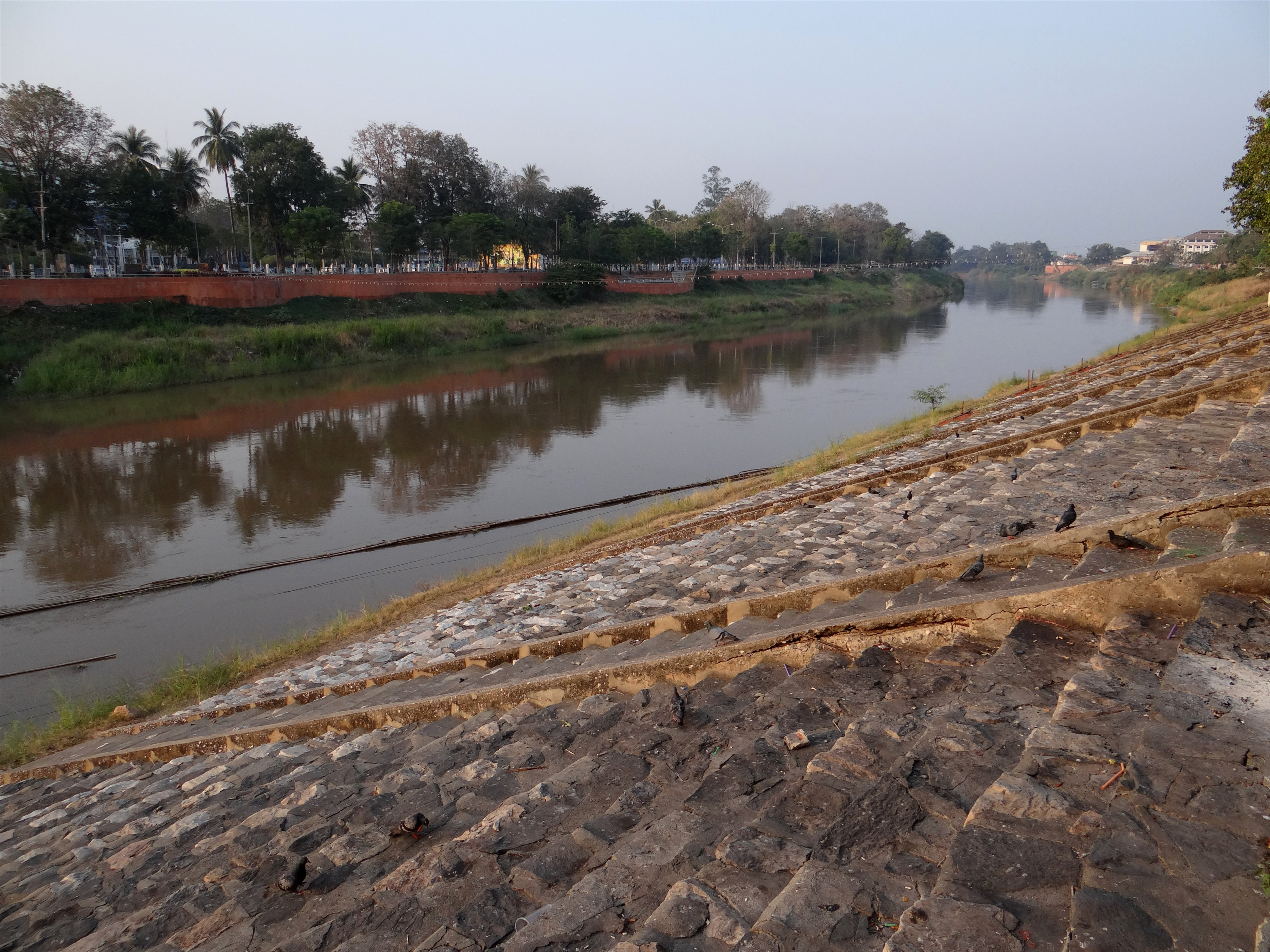 Nan River in Phitsanulok, Thailand.